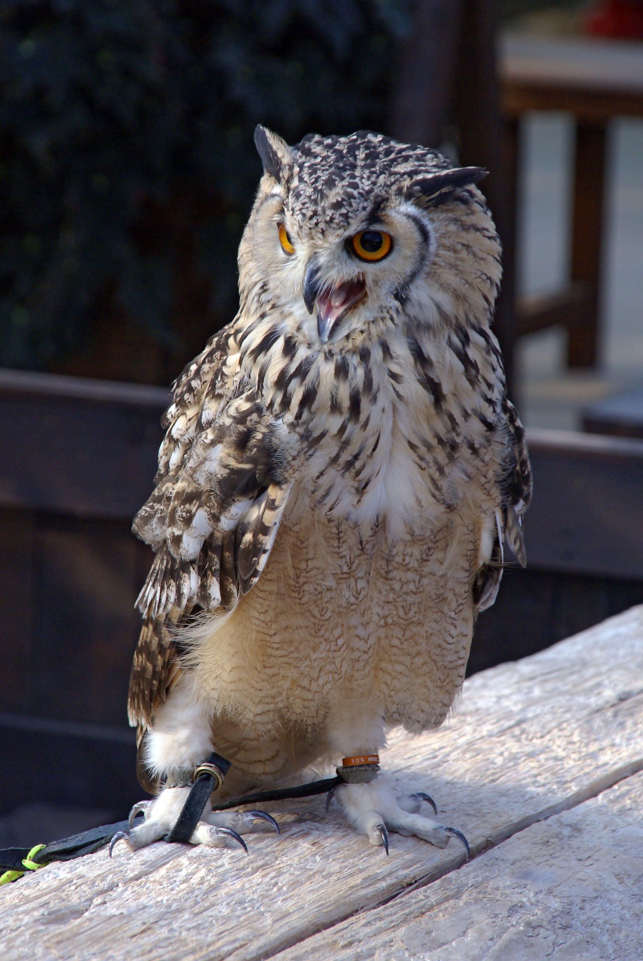 Kobe Kachoen (Kobe Flowers and Birds Garden) in Kobe, Hyogo prefecture, Japan